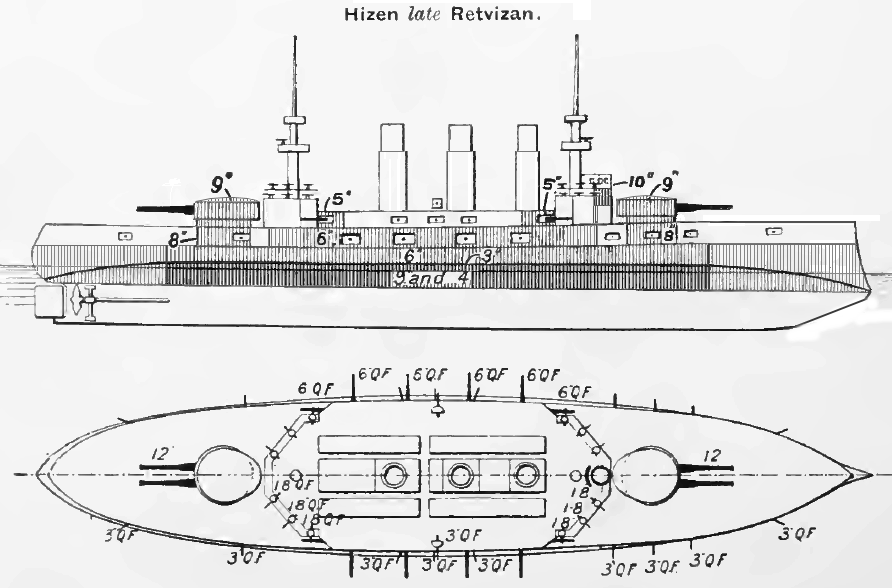 Sketch of the Russian battleships Retvizan - corrected armour scheme, funnels, bow shape according to S.Suliga: Корабли Русско – Японской войны. Часть 1. Российский флот. Main belt marked as thicker.